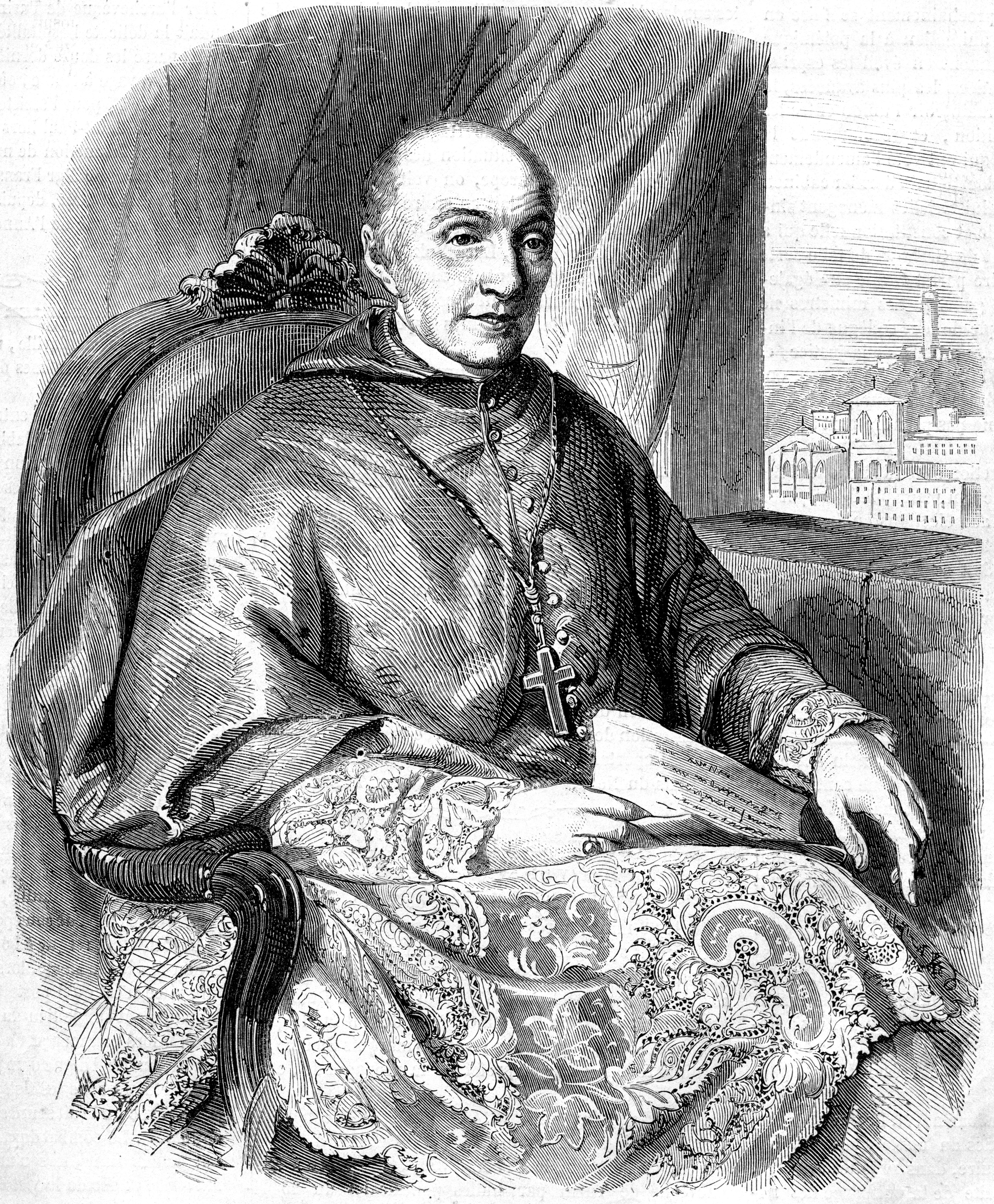 L'Illustration 1862 gravure Mgr. Luigi Fransoni, archevêque de Turin